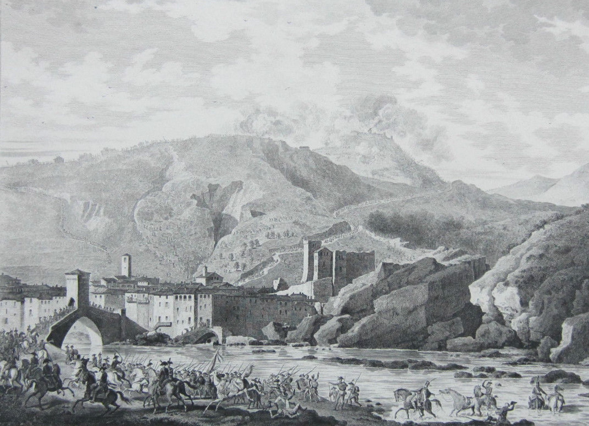 Battle of Millesimo by Horac Vernet